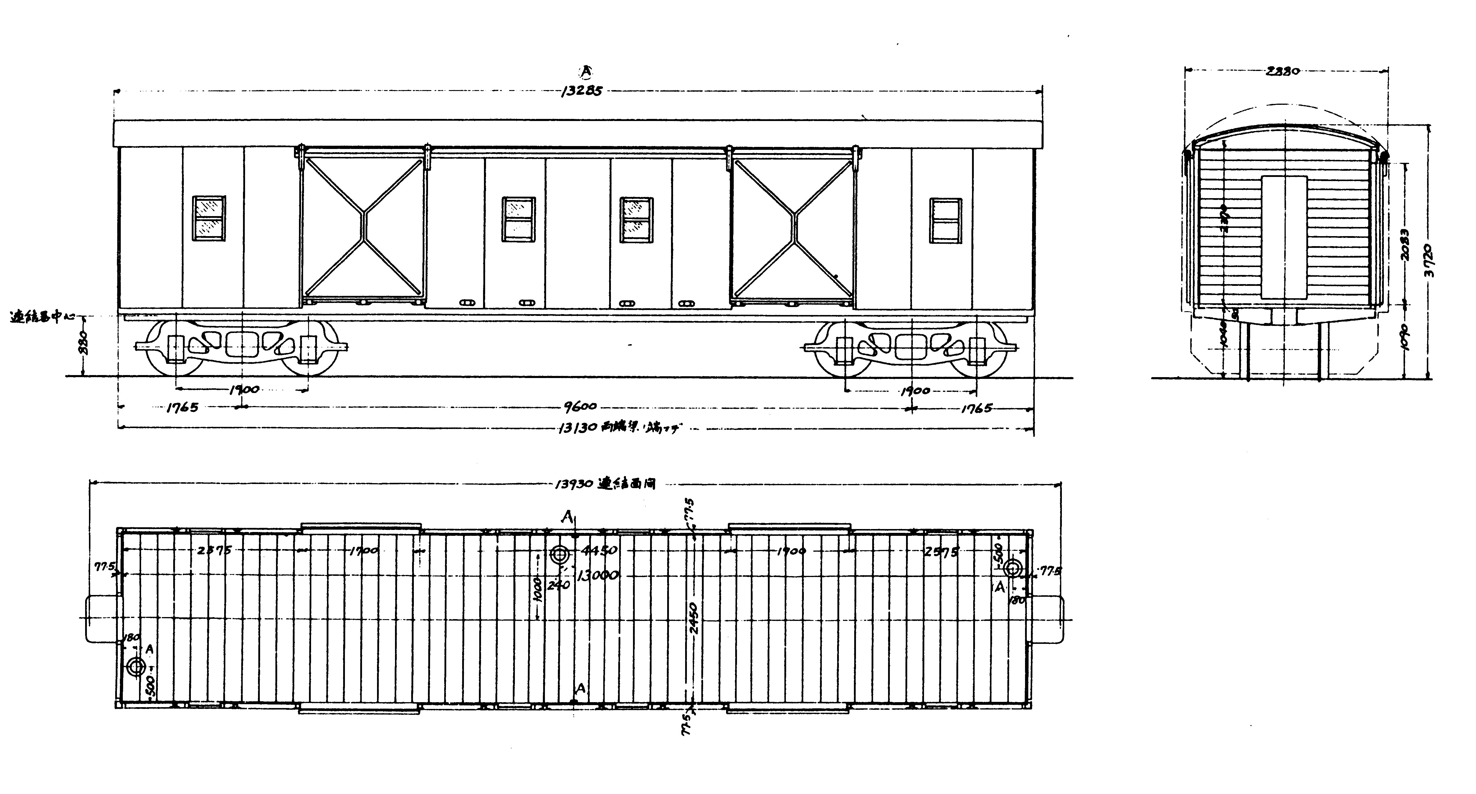 Type drawing of JNR's Class Waki1 freight car (type1)